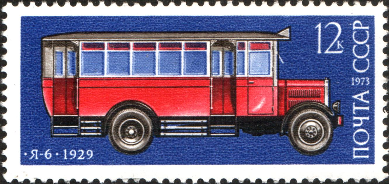 USSR stamp